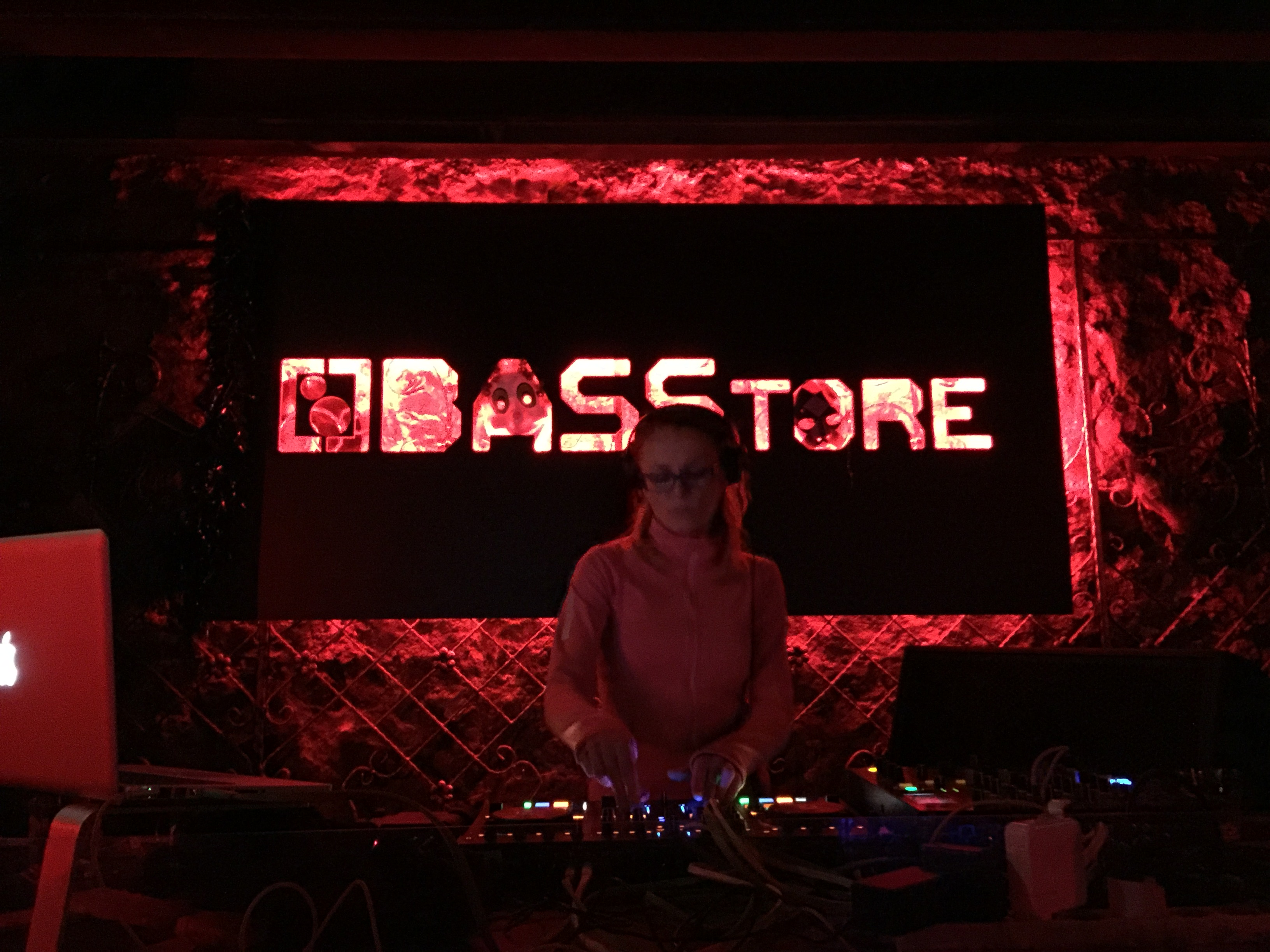 Flekitza is a techno DJ & producer, who together with her partner Vegim manages TMM Records label.